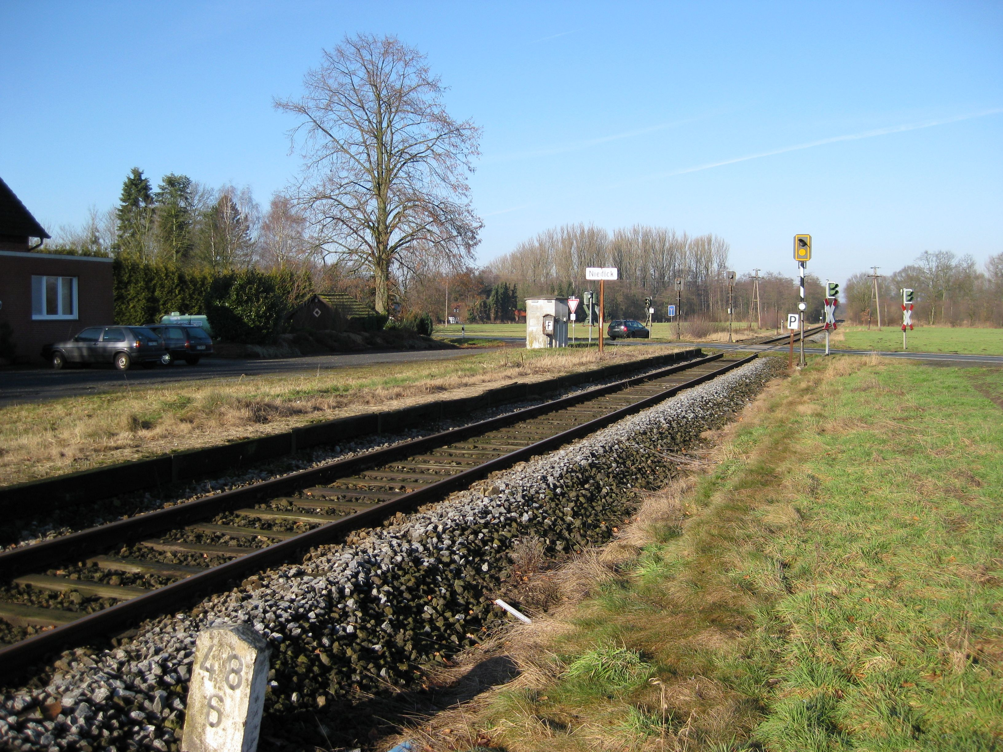 Teutoburger Wald-Eisenbahn, flagstop Niedick